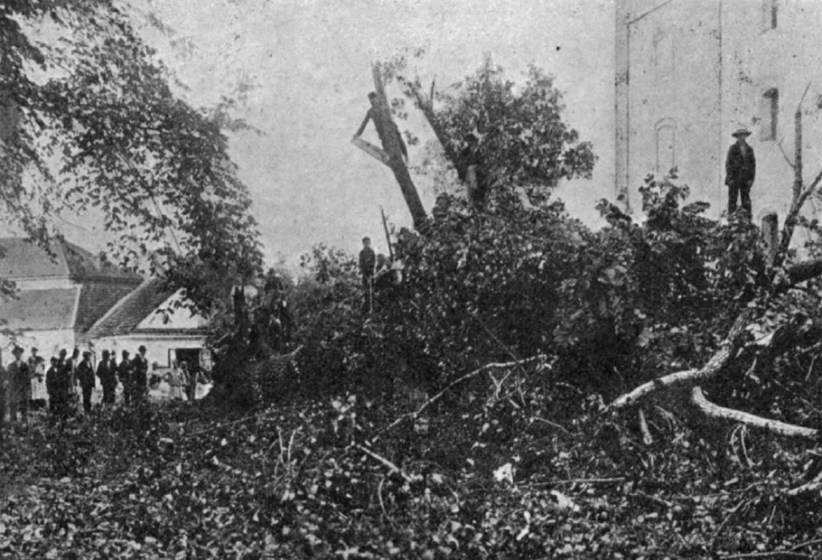 Remains of the great poplar tree in Lochovice, Czech republic. Circumference of the trunk: 1571 centimeters.